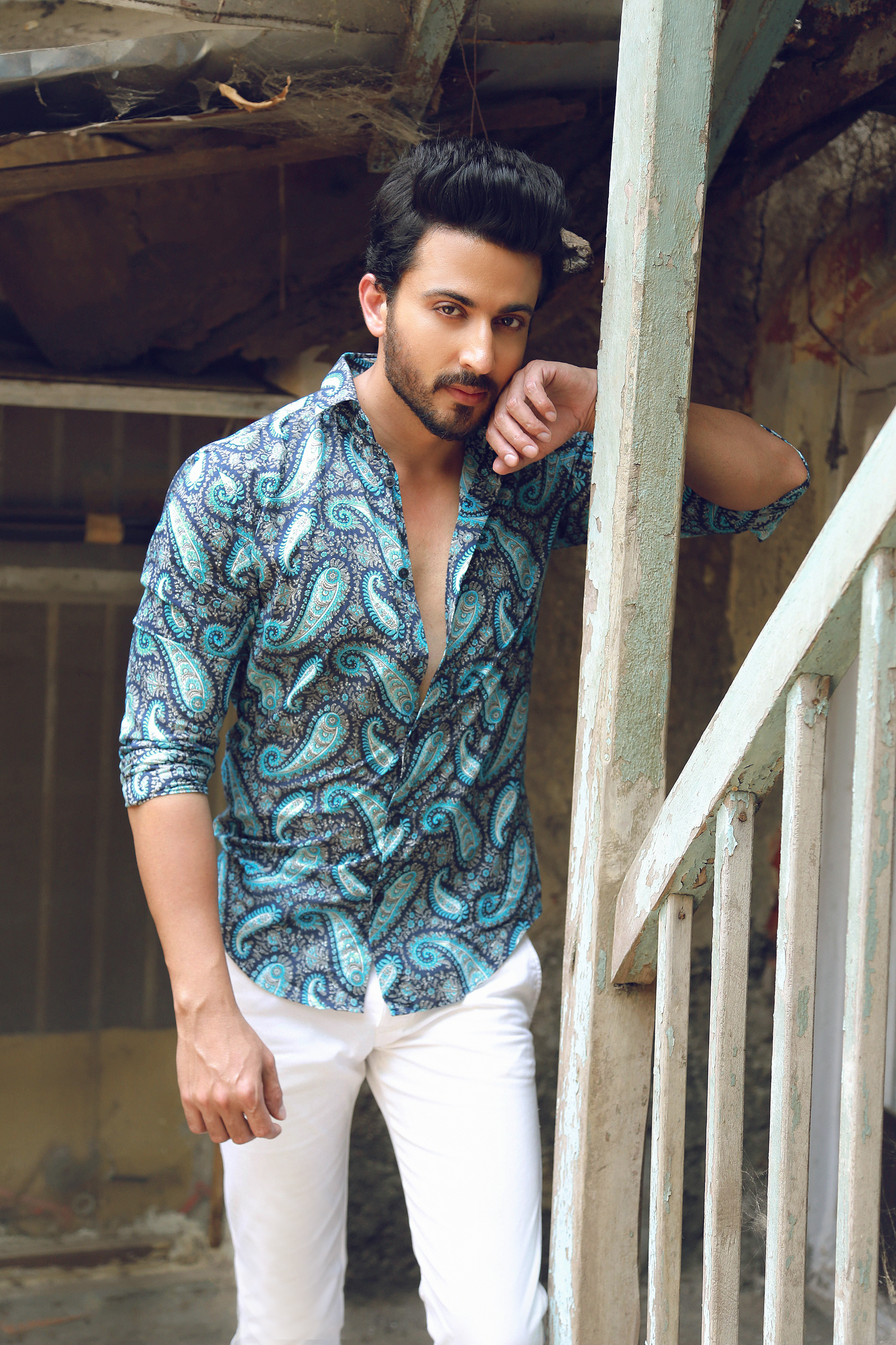 Dheeraj Dhoopar